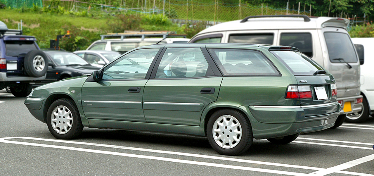 Citroën Xantia Break later-type